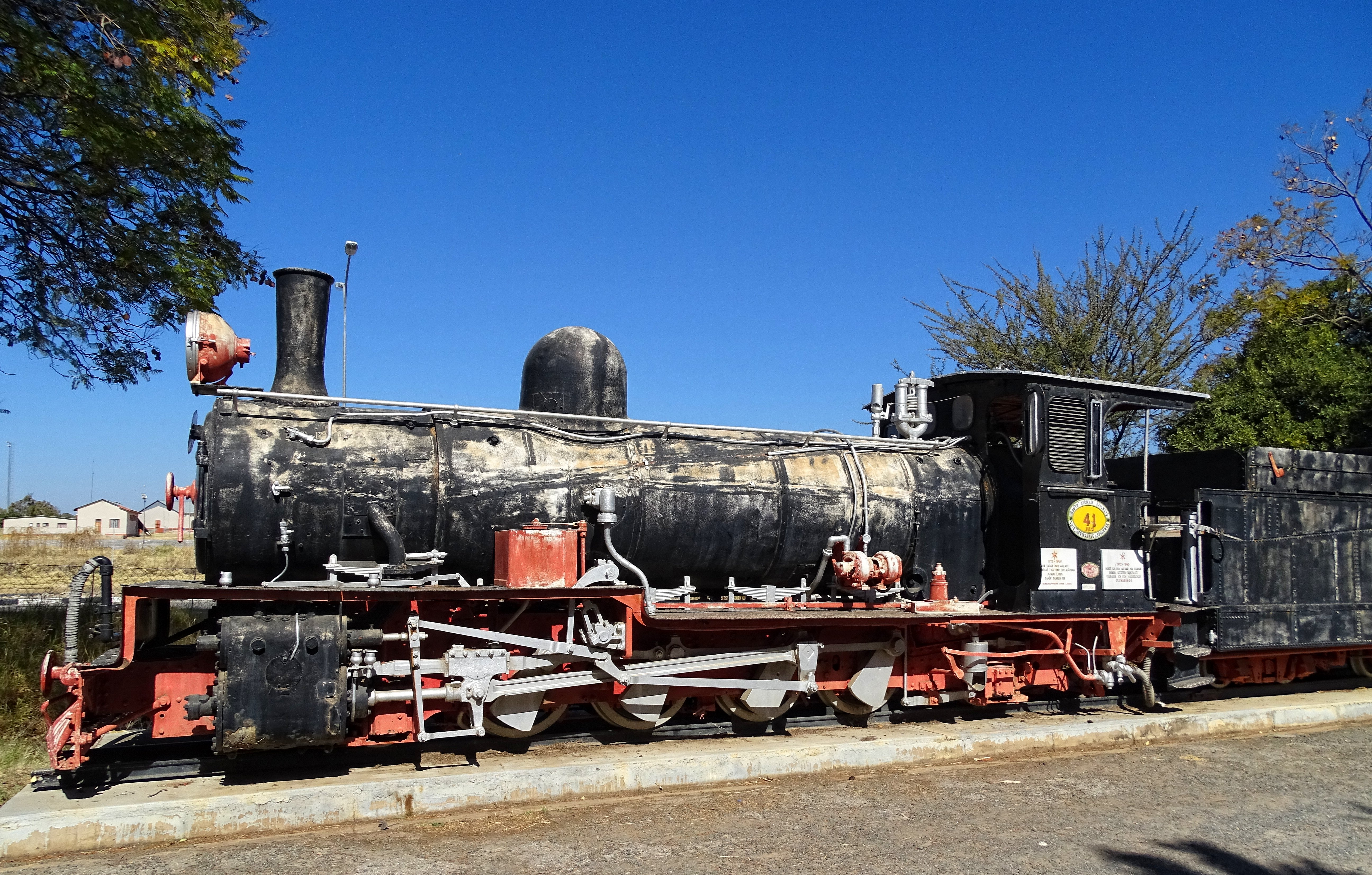 Locomotive No 41, last used for scheduled traffic in 1960, now parked outside the Otjiwarongo train station.